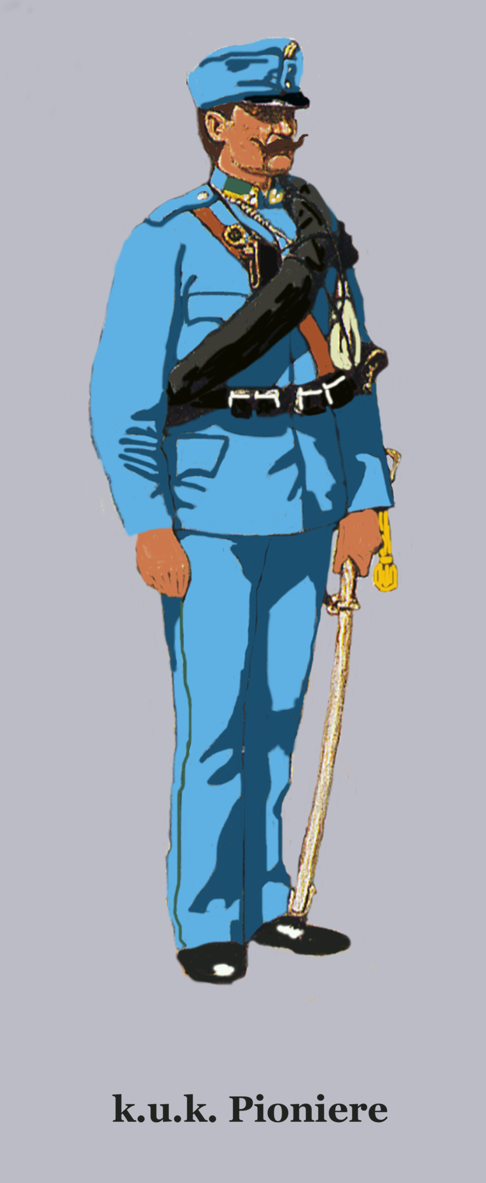 Master-sergeant of the k.u.k. Engineers in battledress